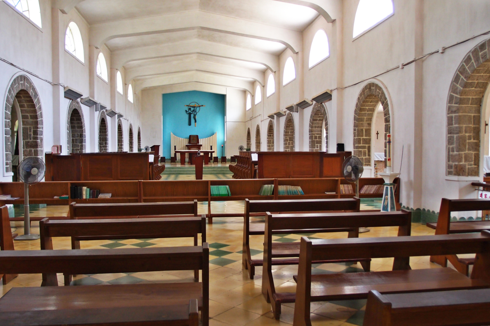 教堂的內部